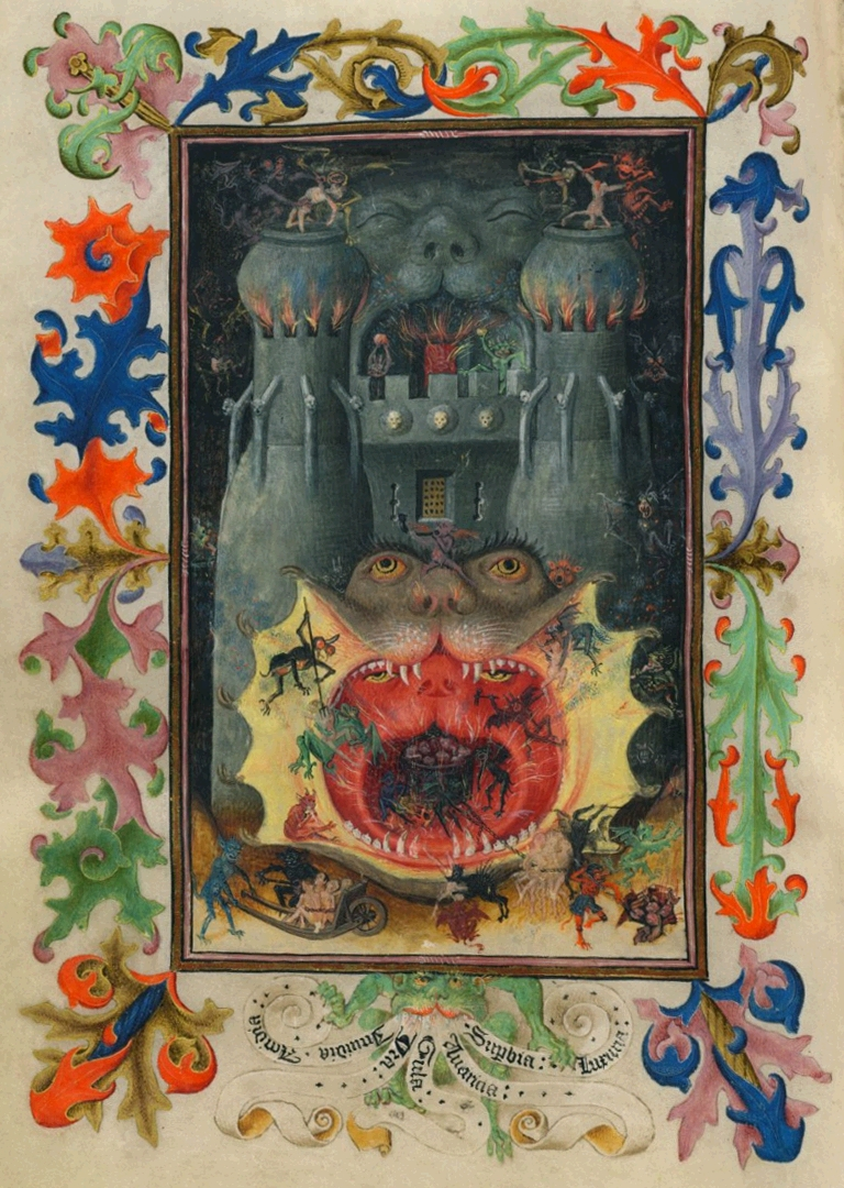 Master of Catherine of Cleves, Mouth of Hell